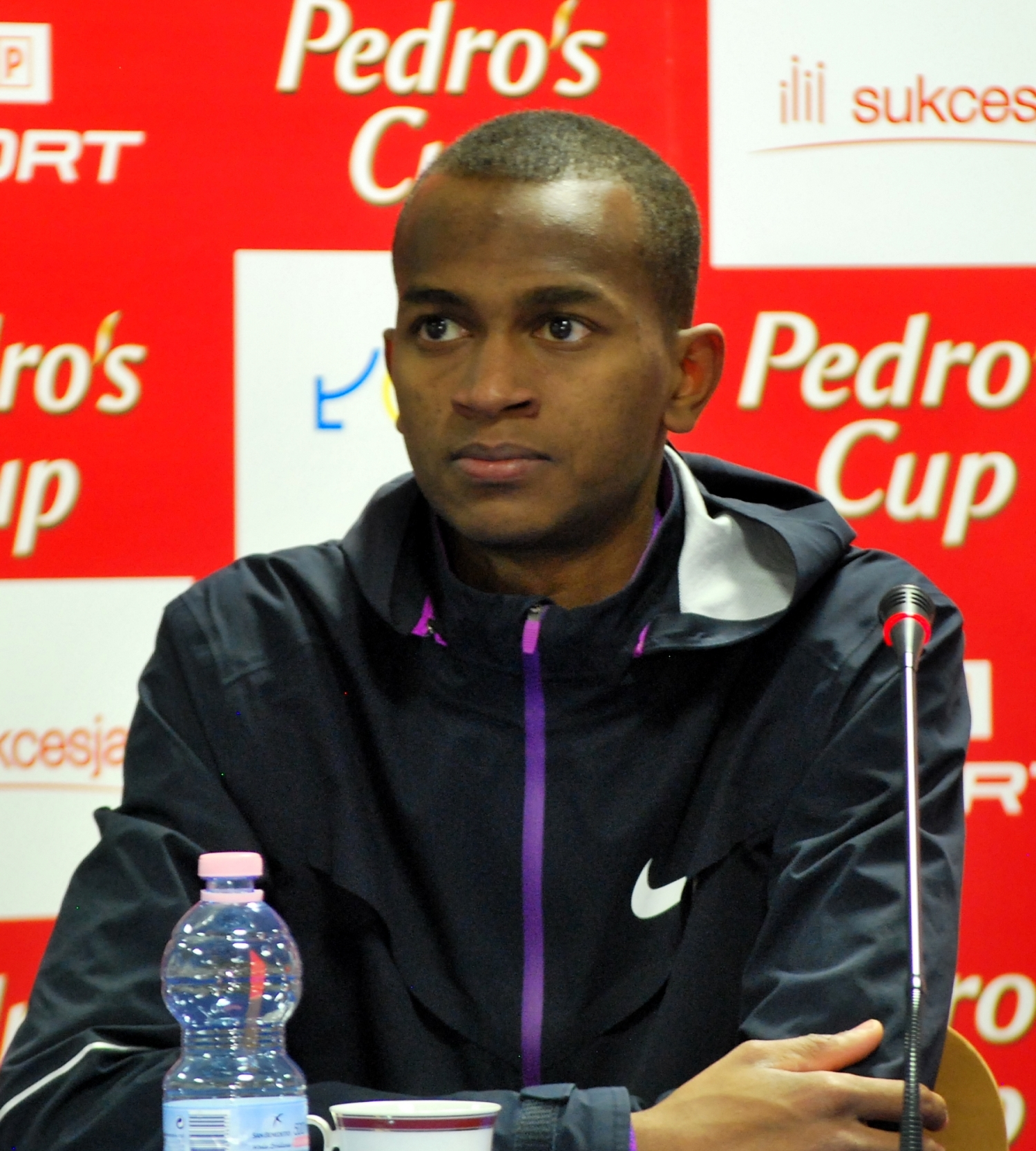 Mutaz Essa Barshim, high jumper from Qatar, Pedro's Cup Łódź 2016